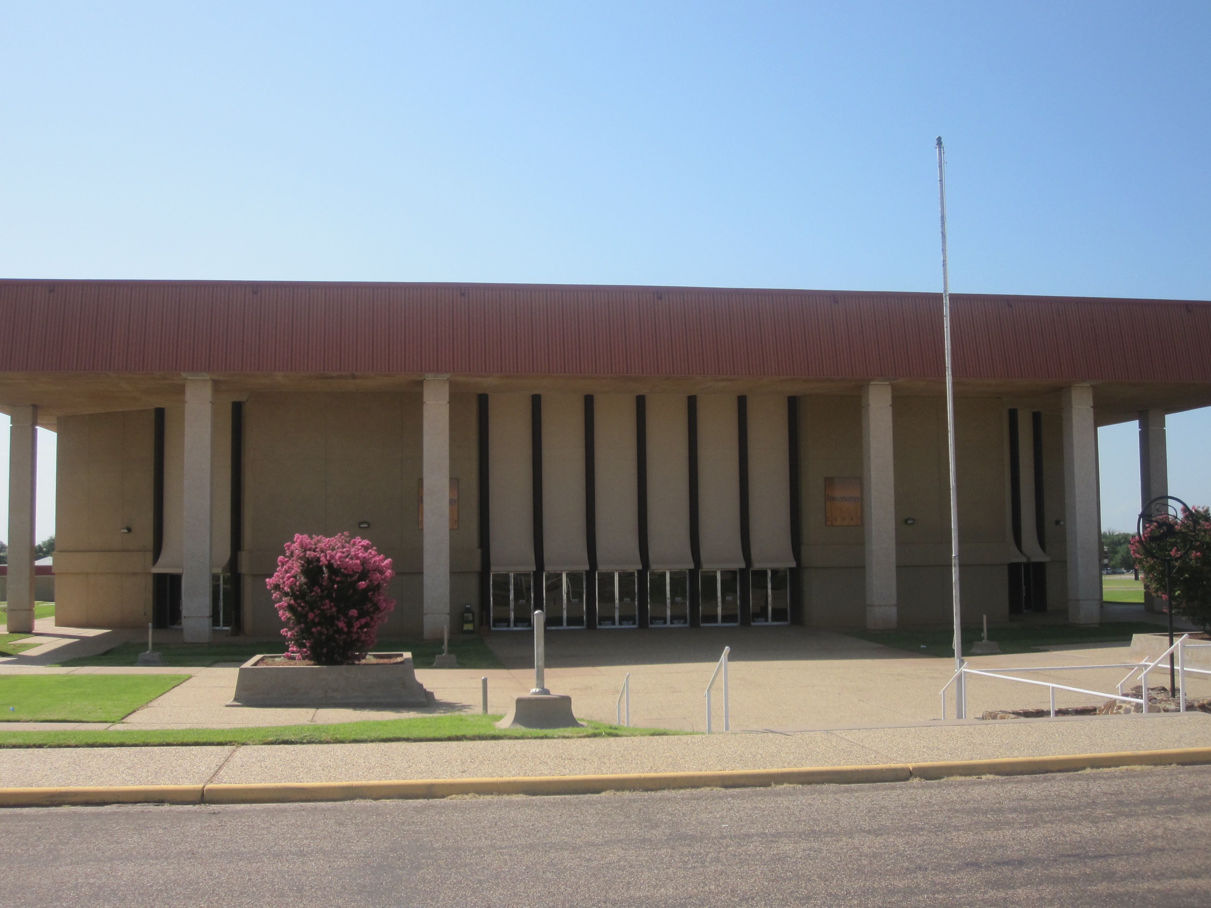 I took photo with Canon camera in Snyder, TX.